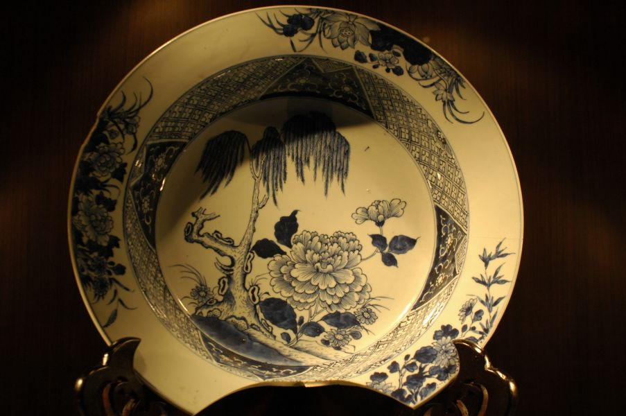 Porcelain collection at the Palace Museum in the Forbidden City in Beijing